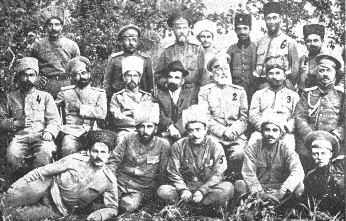 Aram Manukian and others in Van, in 1915